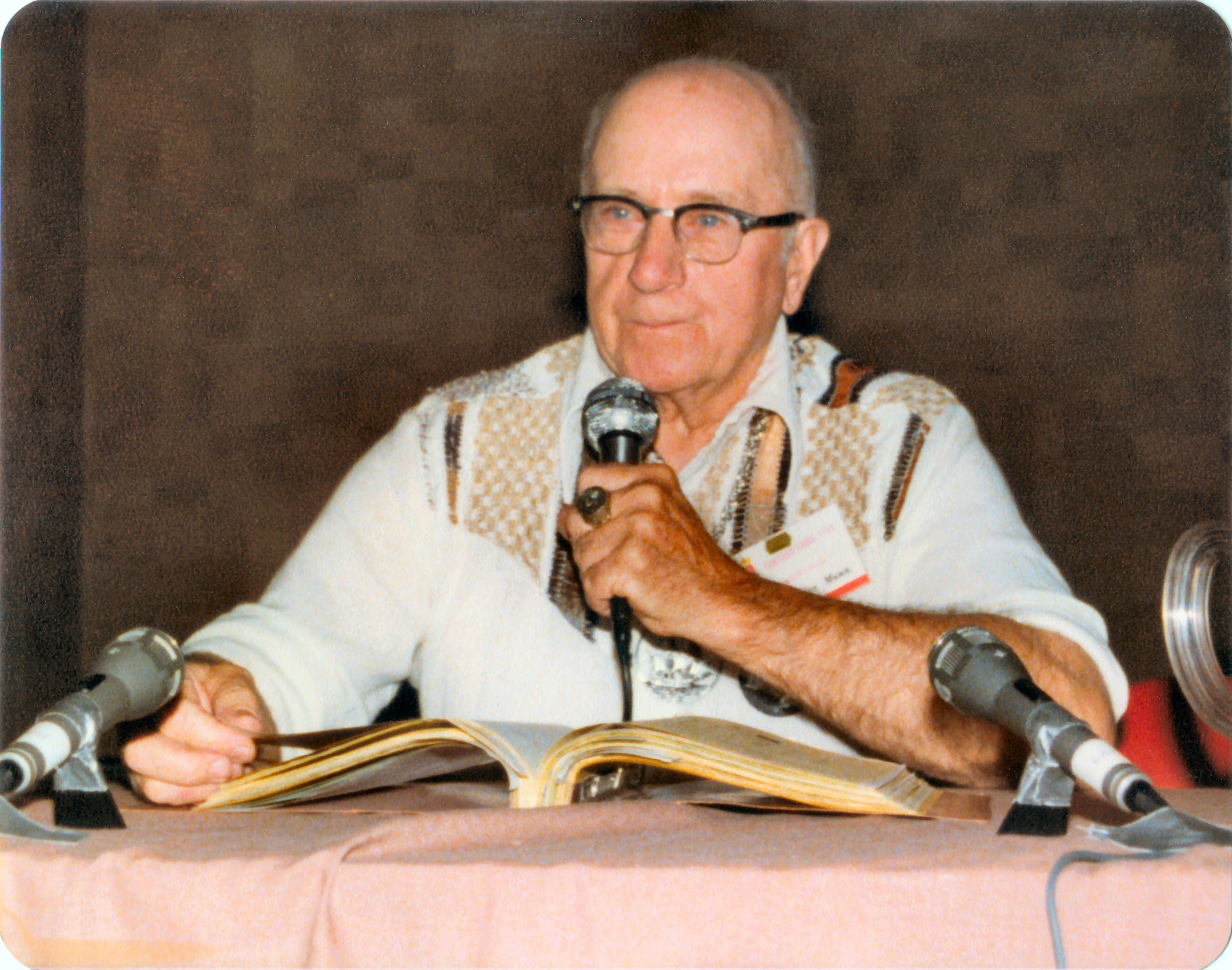 H. Warner Munn at Fantasy Faire 1978